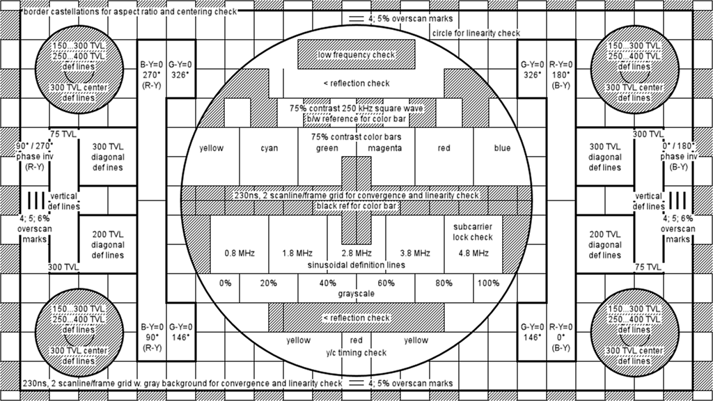 A diagram of the signals featured in a PM5644 type test pattern, created given published specifications.